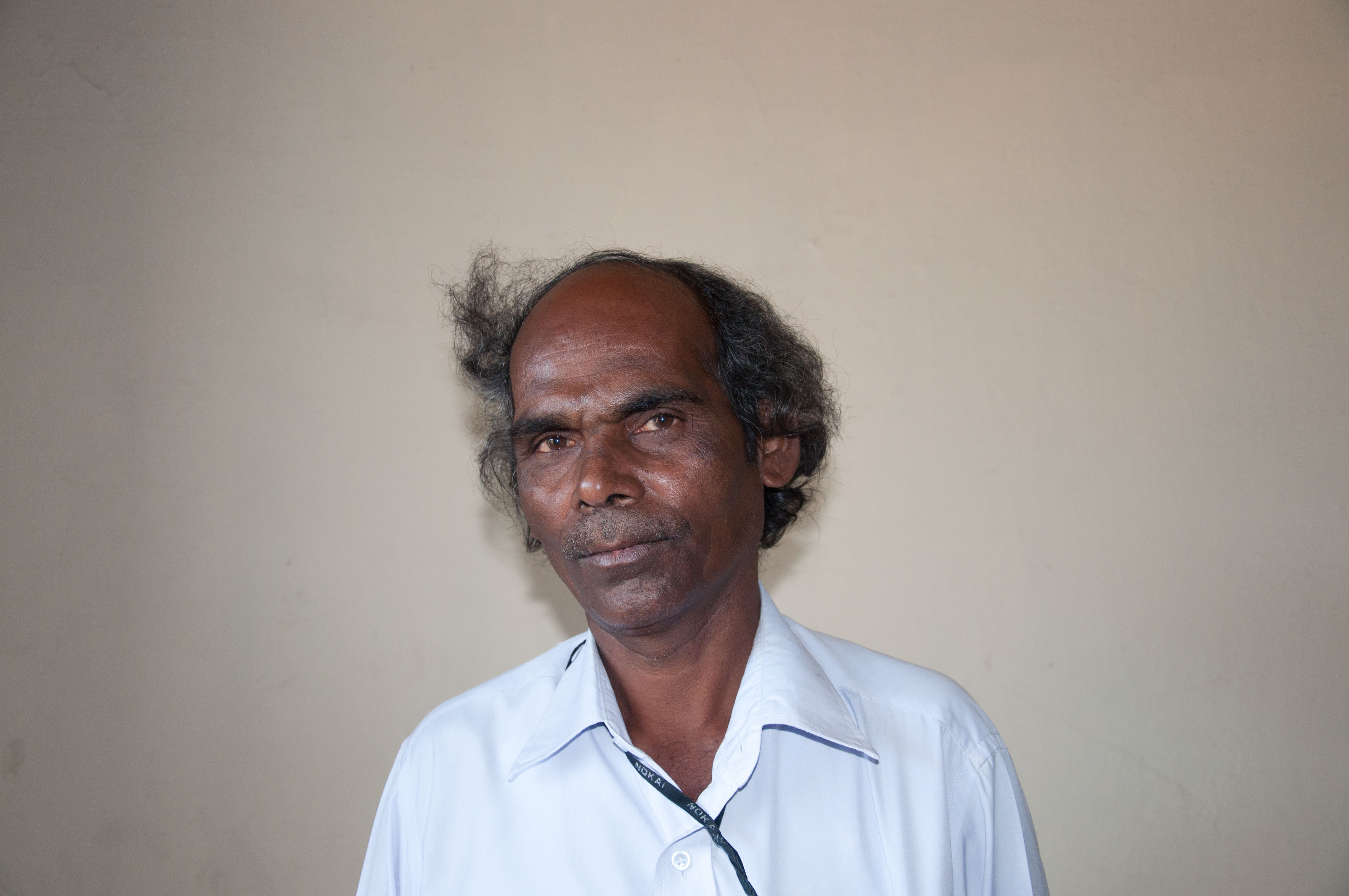 Veteran kannada actor